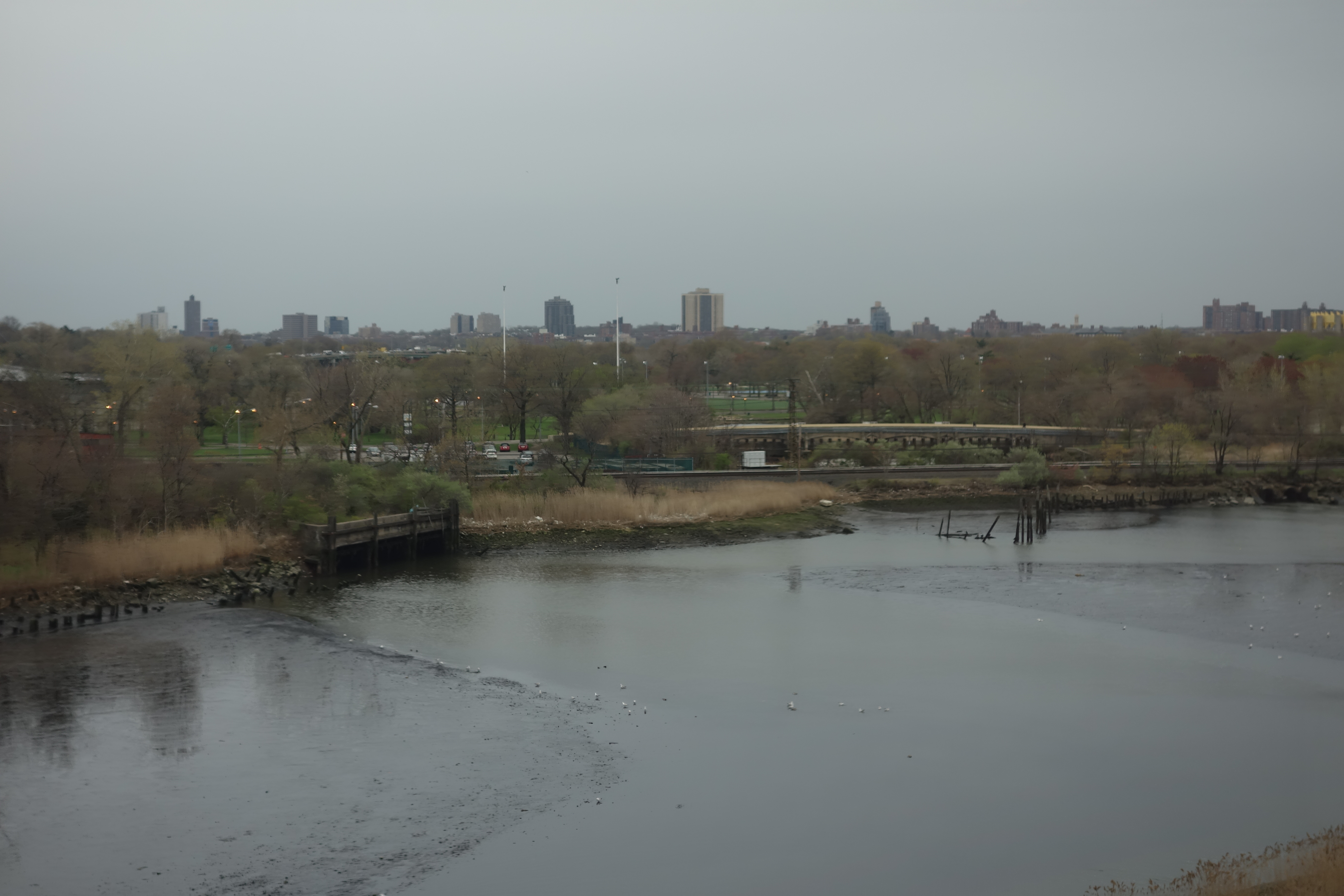 Looking south from a Flushing-bound R188 7 Express train crossing the Flushing River / Flushing Creek on the Roosevelt Avenue Bridge, in Flushing / Willets Point / Flushing Meadows, Queens. Pictured are the Tidal Gate Bridge (far background), which also acts as a one-way flood gate for the river, and the LIRR Port Washington Line which crosses the river near grade level.